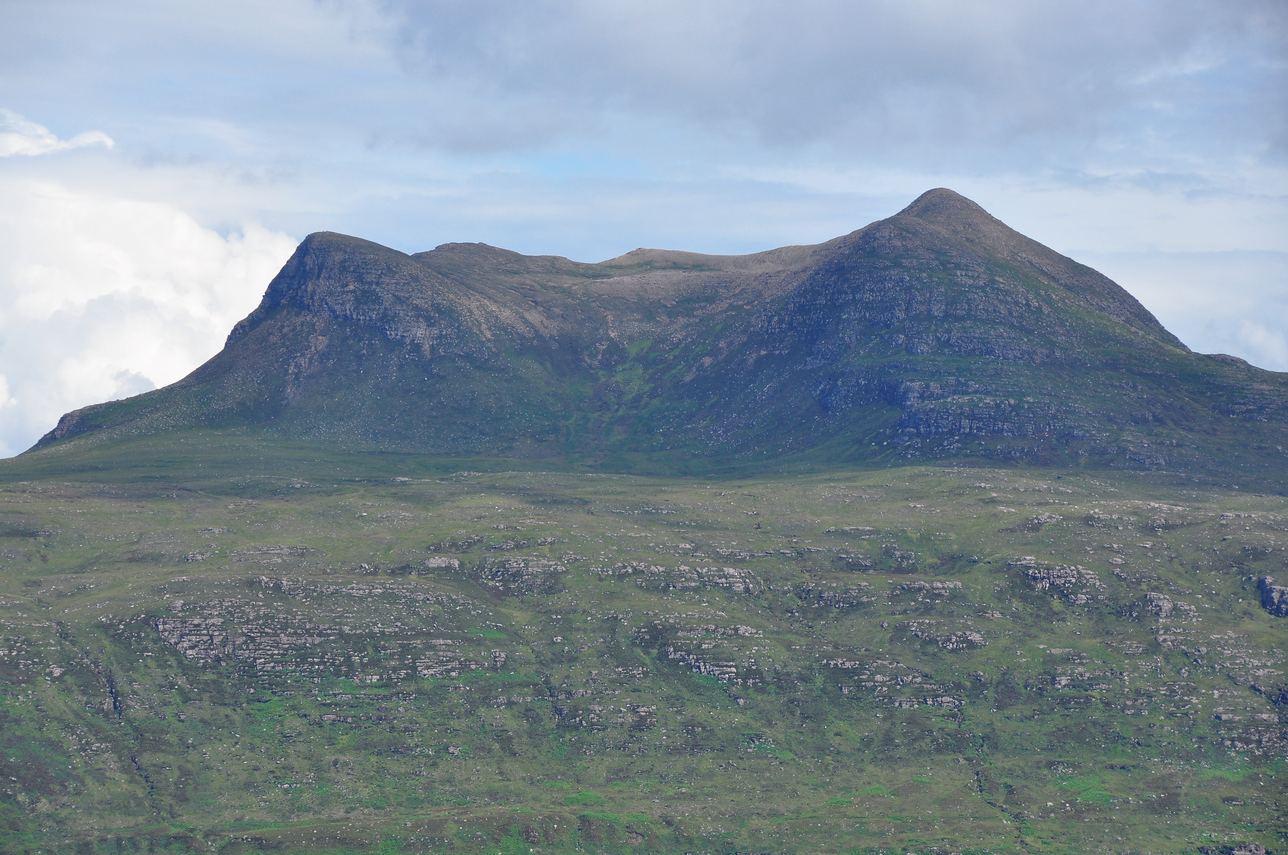 Beinn Ghobhlach, a hill on the ridge separating Loch Broom from Little Loch Broom in the Scottish Highlands.